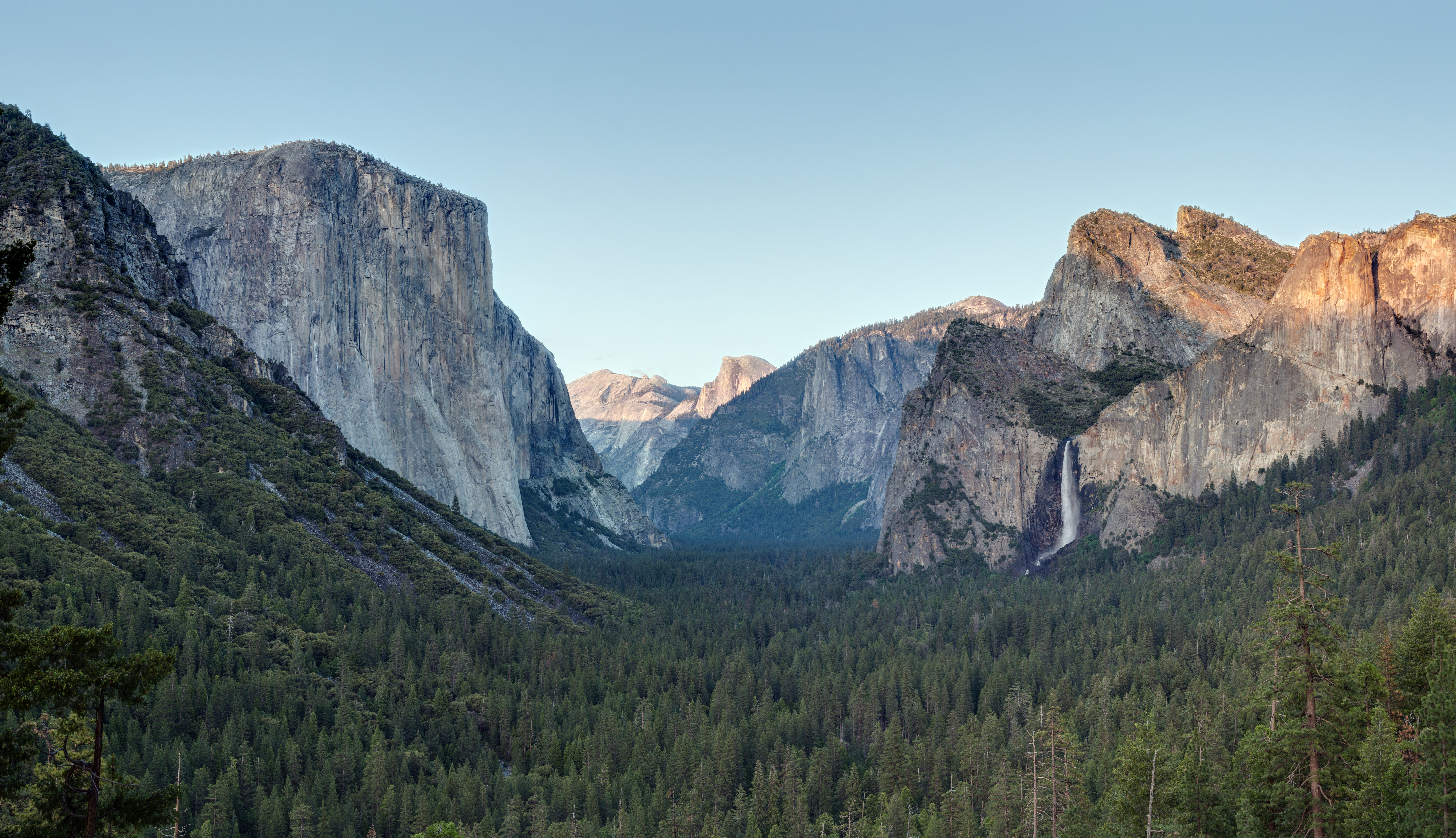 The view of Yosemite Valley from Tunnel View at sunset in Yosemite National Park, California, United States.